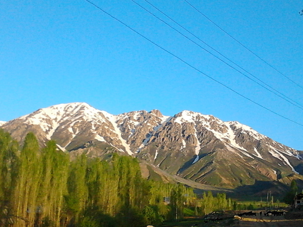 zarkamar-2